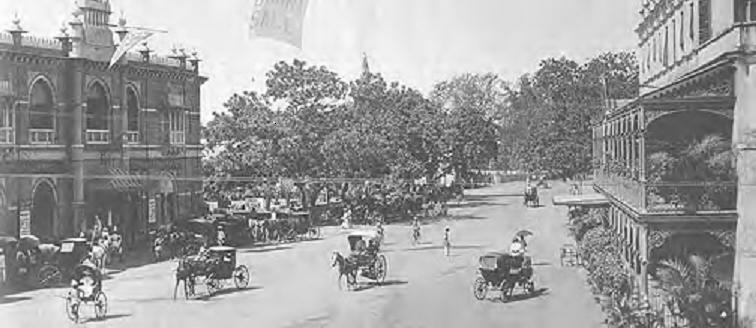 THIS IS A PHOTO IN MADRAS, MOUNT ROAD, IN 1885 TO DE RIGHT YOU CAN SEE THE HOTEL D'ANGELIS BALCONYS, IN THE BEGINING .